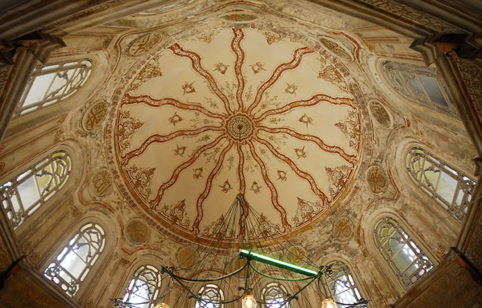 Dome of the mausoleum of Mihrişah valide sultan